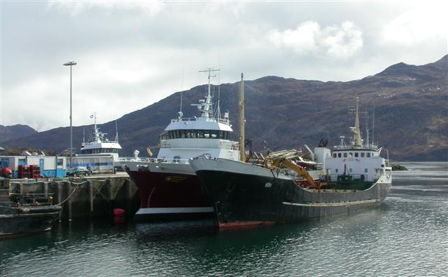 Dock & end of the railway line at Kyle of Lochalsh. The two fishing vessels are the Norwegian owned - Sølvtrans AS - well boats Ronja Commander and Ronja Pioneer that visit the west coast salmon farms to take fish to Mallaig for packing and preparation for distribution to Fort William for processing.